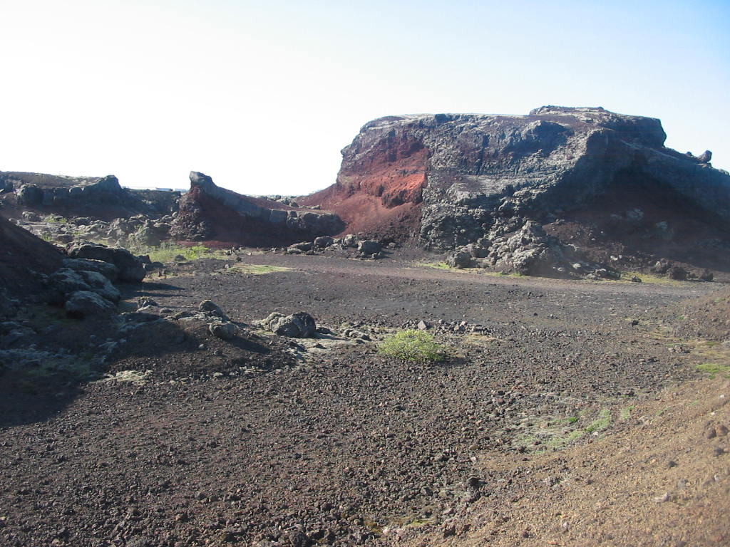 Rauðhólar (icelandic Red hills) - remnants of a cluster of pseudocraters in Elliðaárhraun lava fields on the south-eastern outskirts of Reykjavík, Iceland. The age of Rauðhólar is about 4600 years. Originally there were over 80 craters but the gravel from them was taken and used in constructions. Most of the material was taken around World War II for constructions such as Reykjavík airport and road building.